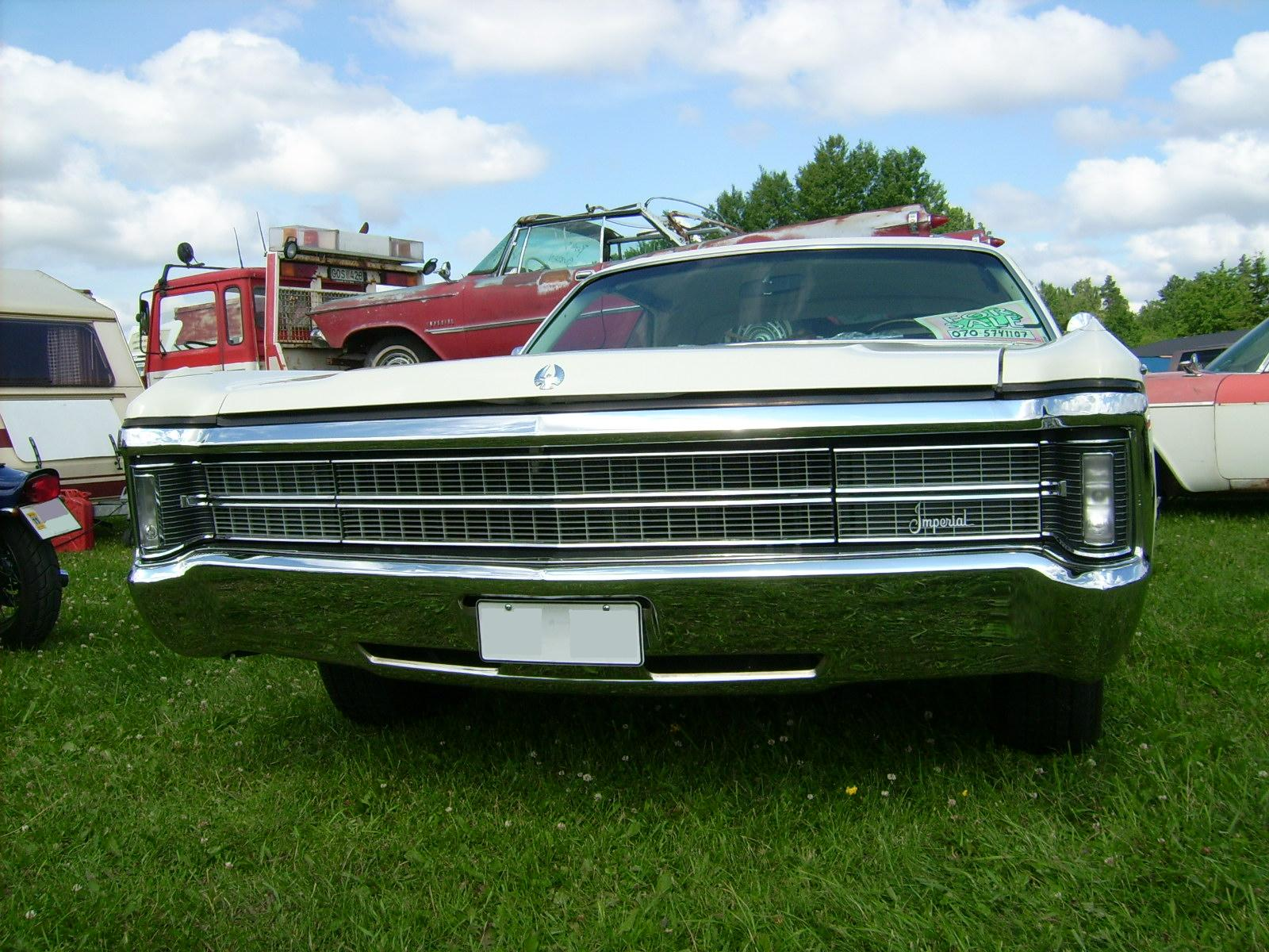 1969 Imperial at Power Big Meet 2007, Västerås, Sweden